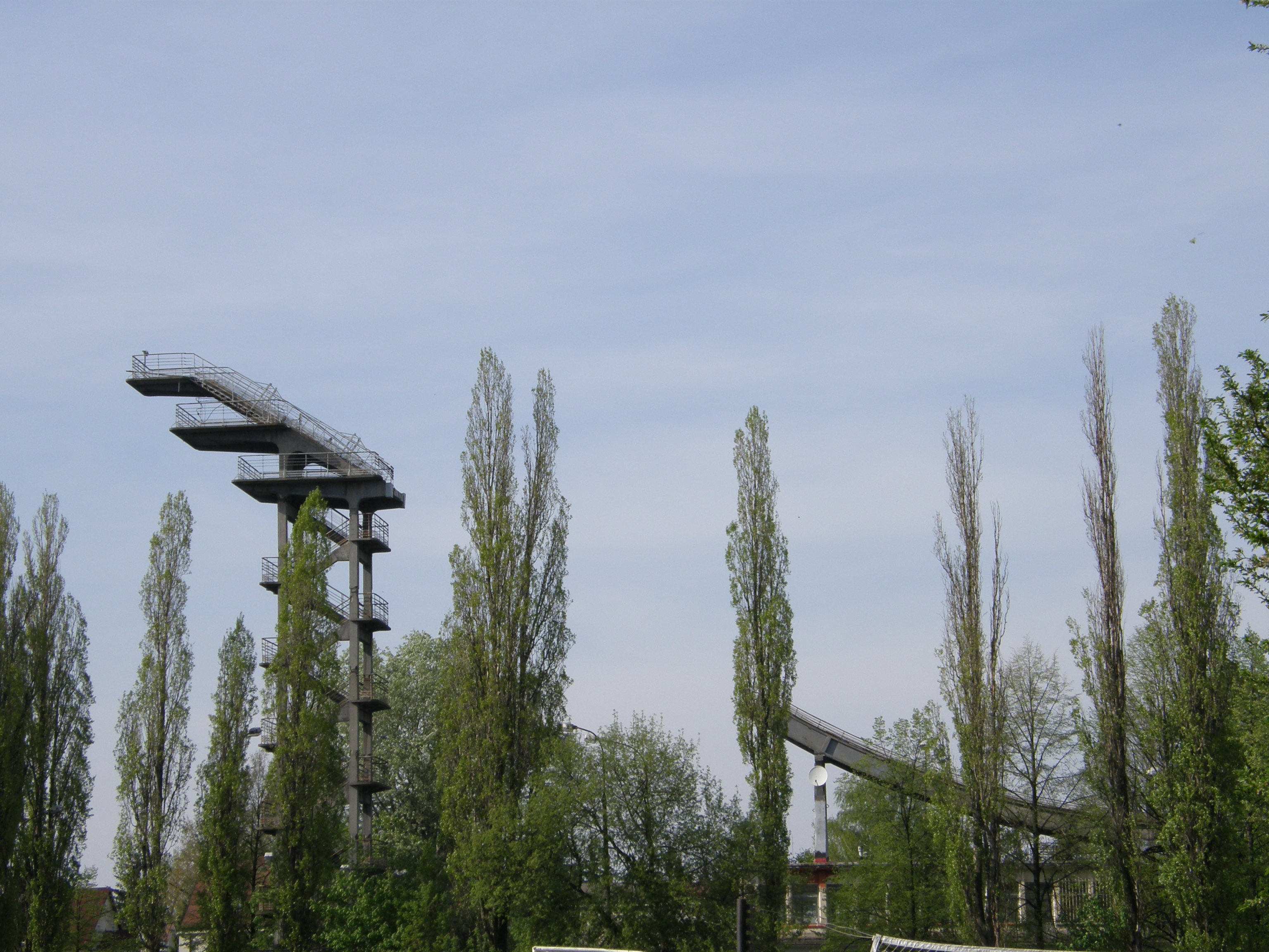 Ski jumping hill in Warsaw, Poland